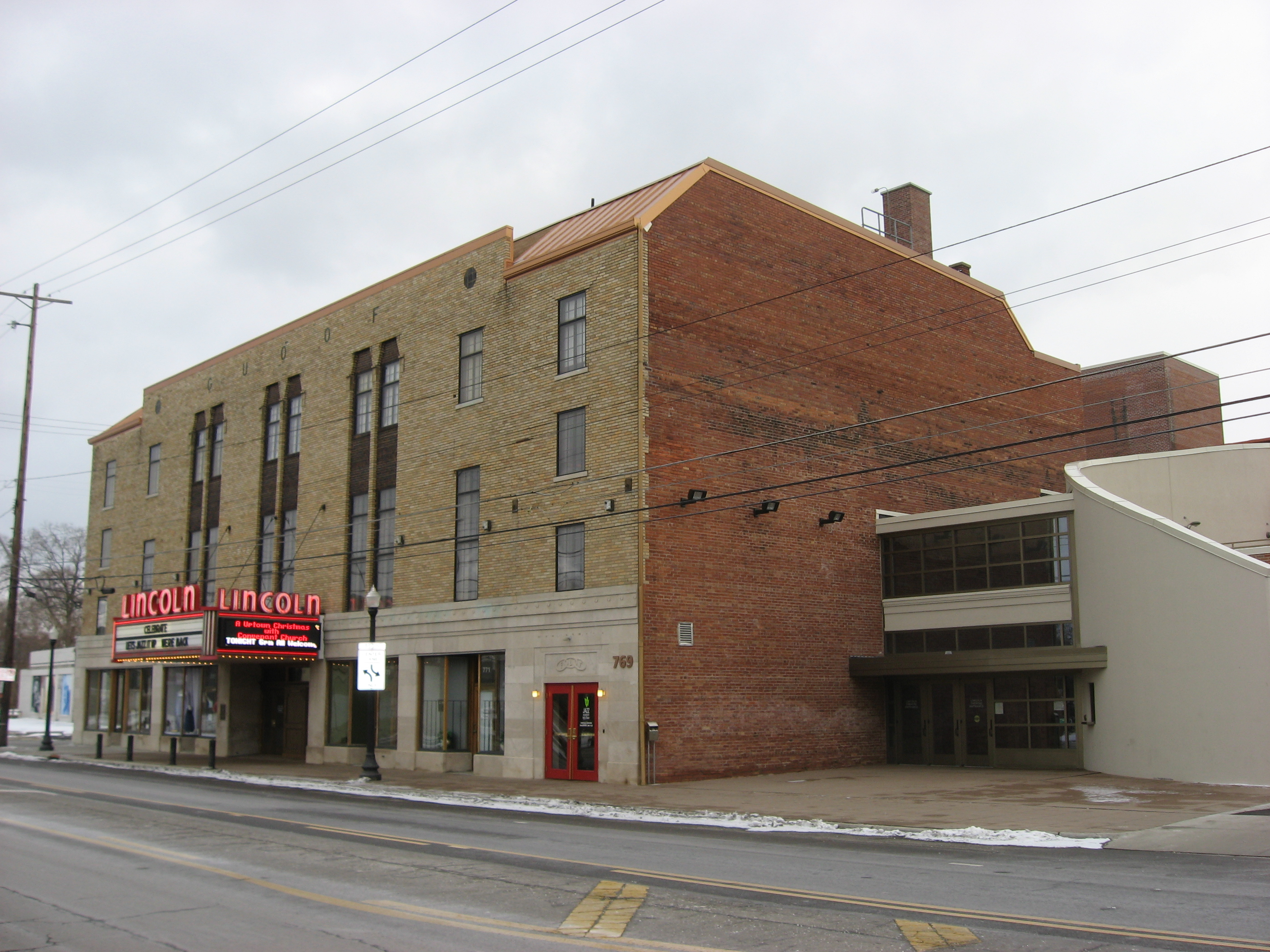 Front and western side of the Lincoln Theatre, located at 769 E. Long Street in Columbus, Ohio, United States. Built in 1928, it is listed on the National Register of Historic Places.